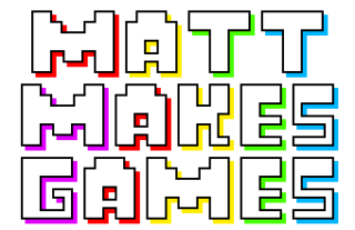 The logo for the video game company Matt Makes Games